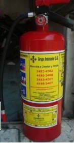 BASED POWDER EXTINGUISHER DRY CHEMICAL